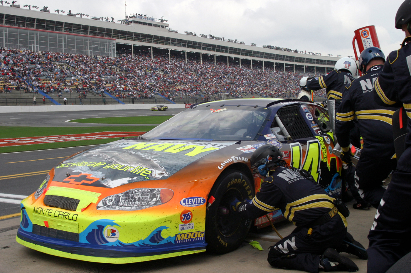 Charlotte, N.C. (Oct. 13, 2003) -- Casey Atwood powers the Fitz-Bradshaw racing team, "Accelerate your Life Chevy Monte Carlo" sponsored by the U.S. Navy into the pits for tires and fuel during the "Little Trees 300” at Lowe’s Motor Speedway. The car sports a specially designed 228th Navy Birthday paint scheme by famed Nascar Artist/Illustrator Sam Bass. Bass has designed cars for Dale Earnhardt Sr., and Jeff Gordon. U.S. Navy photo by Journalist 1st Class Mark Rankin. (RELEASED)